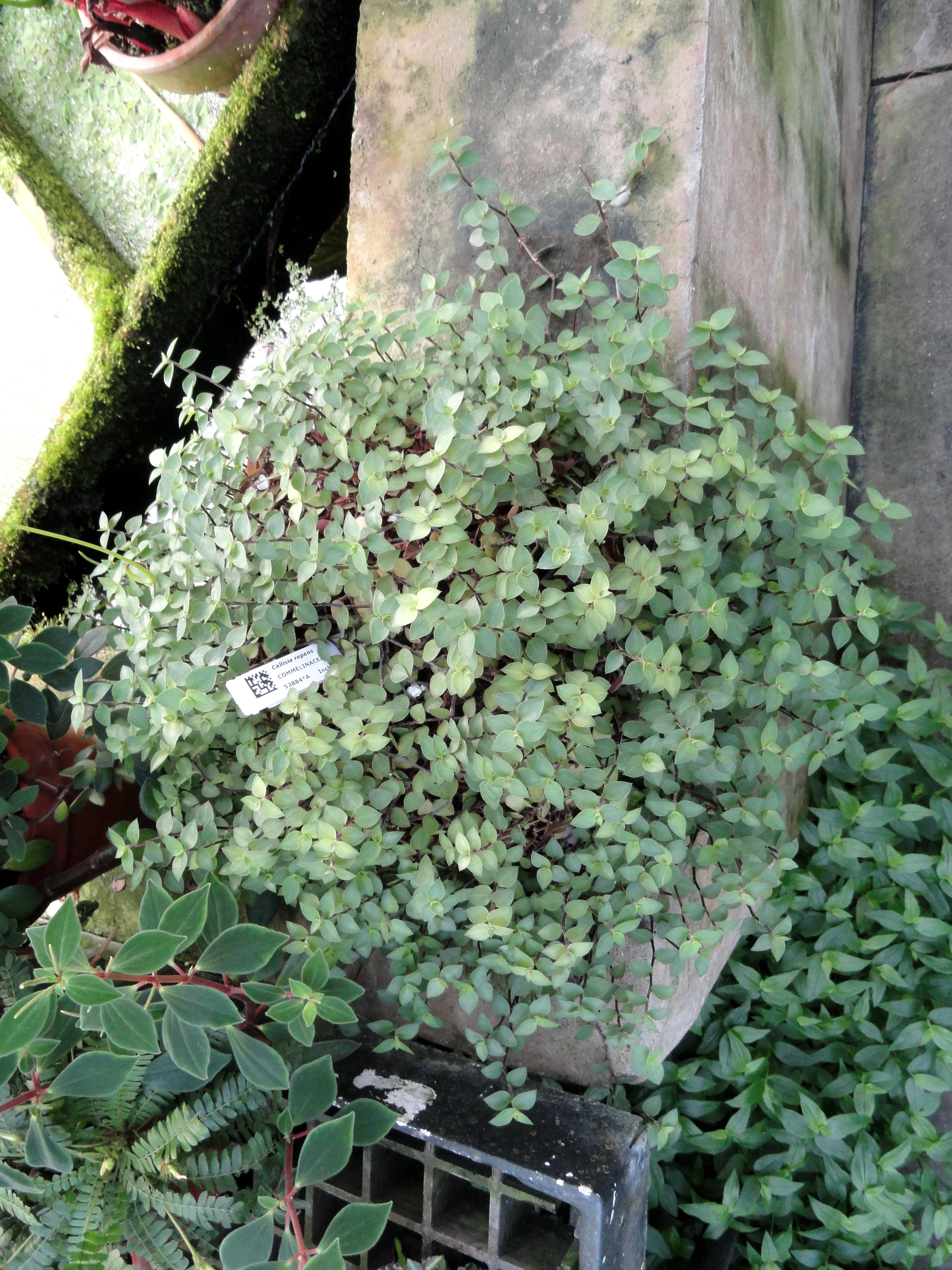 Botanical specimen in the Lyman Plant House, Smith College, Northampton, Massachusetts, USA.